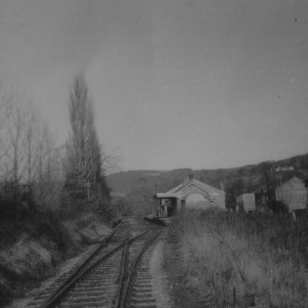 Bovey Tracey station on the Moretonhampstead branchline in Devon.